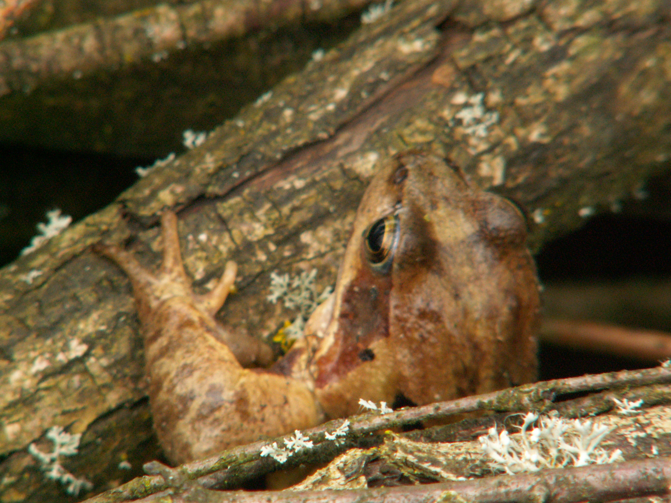 Rana temporaria in a wood stack, Utrecht , The Netherlands